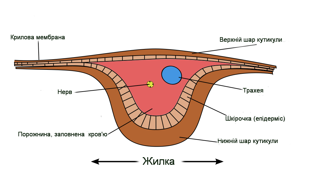 Crossecion of insect wing vein (Ukrainian translation). This file was derived from File:Crossecion of insect wing vein svg